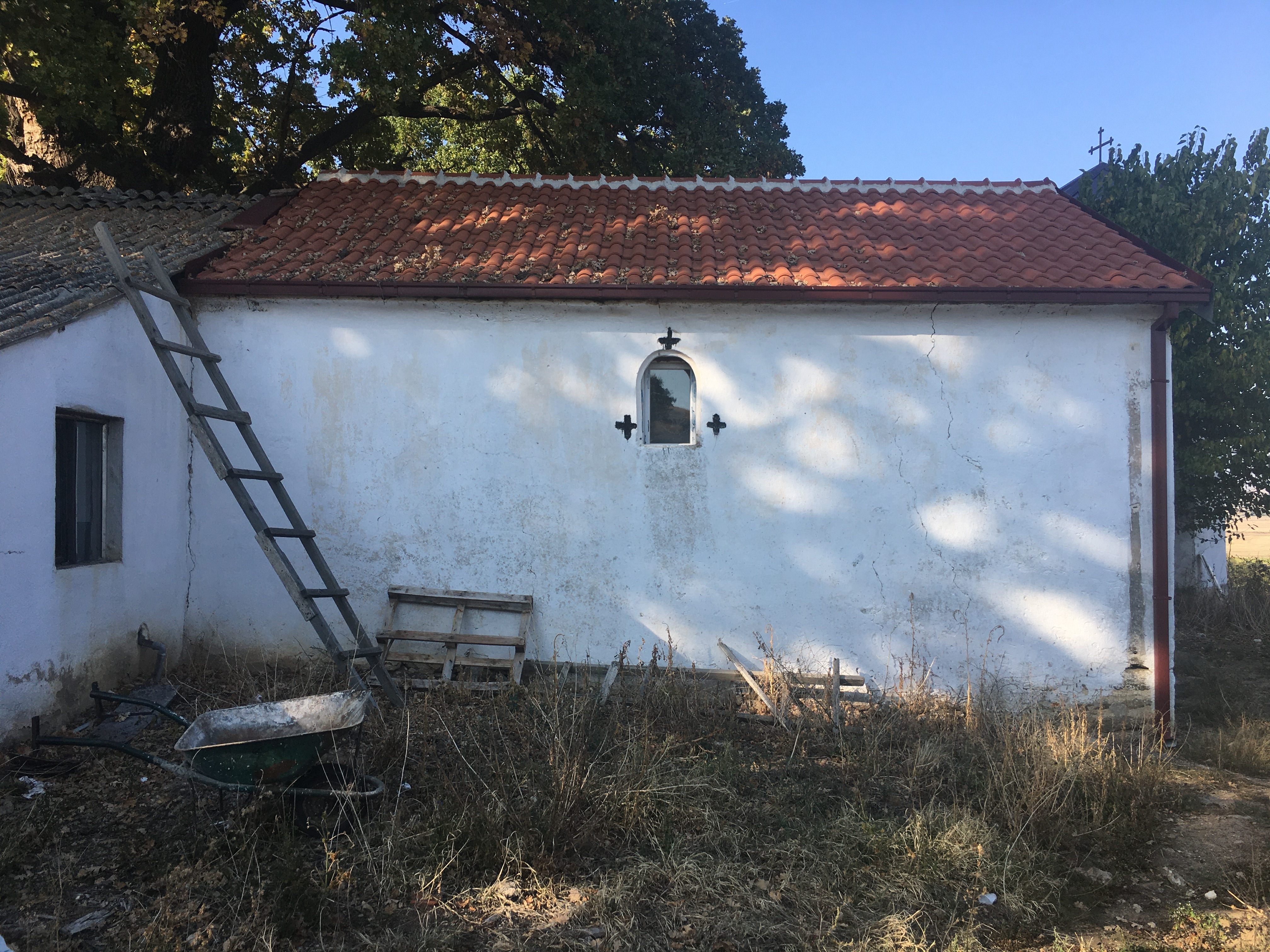 St. George Church in the village of Novoselani, Prilep